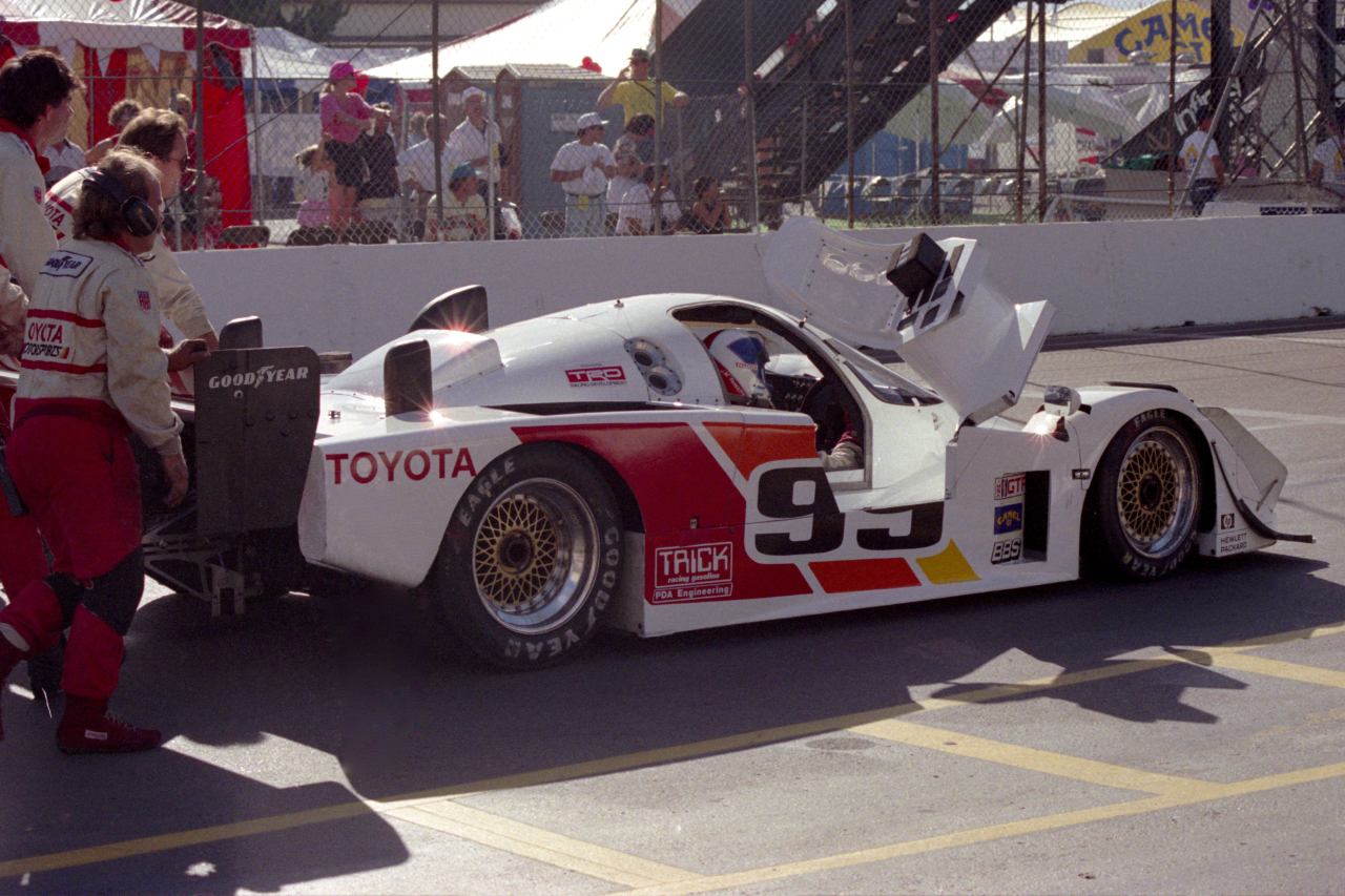 Juan Manuel Fangio II at the IMSA Del Mar Grand Prix - October 1990.